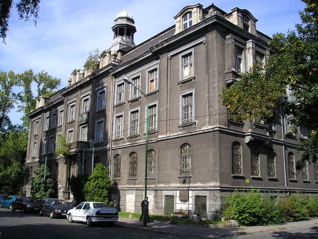 The old Town Hall of Hajduki Wielkie, Poland, which used be a separate town but now is part of the city of Chorzow. The building is now abandoned.